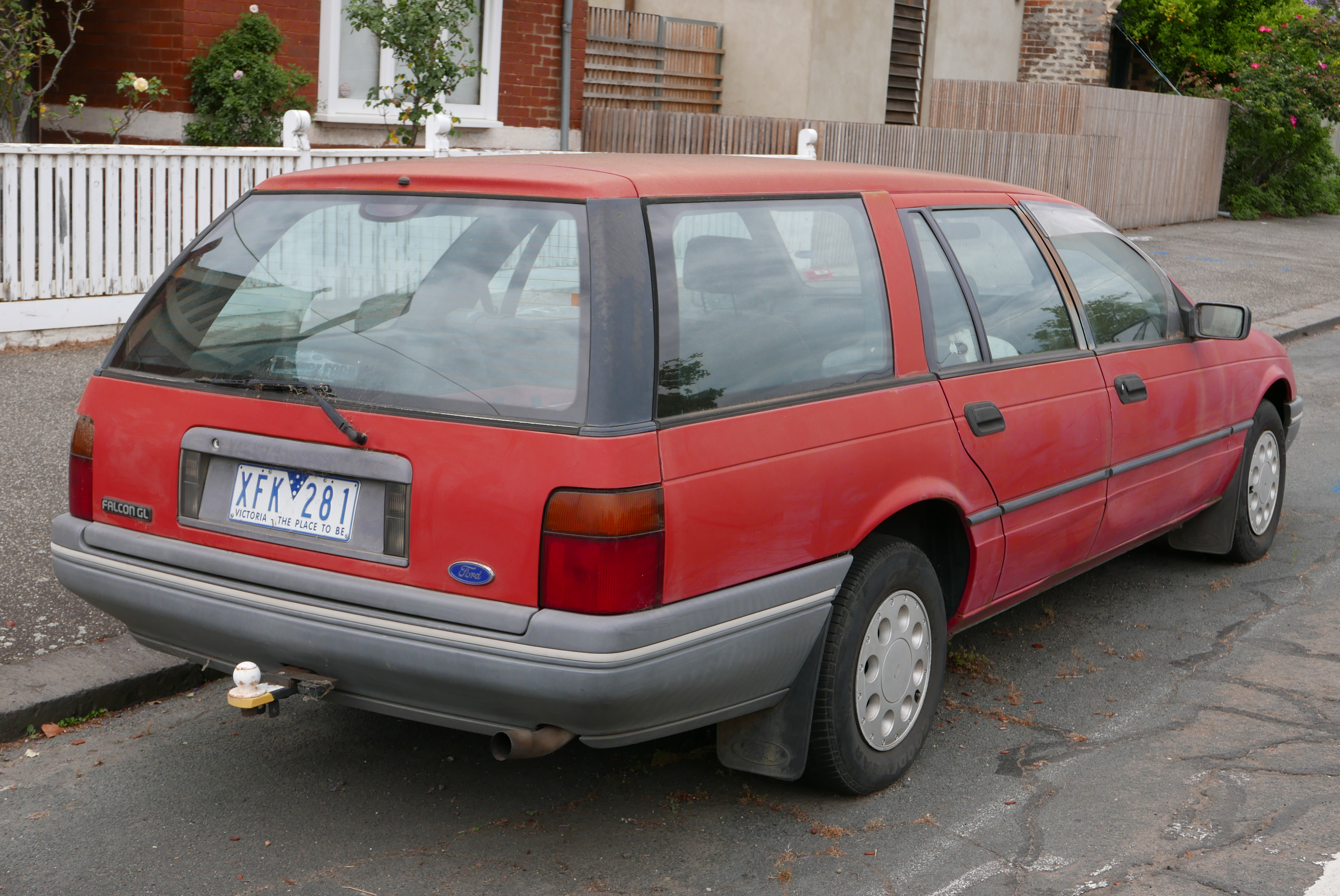 1989 Ford Falcon (EA) GL station wagon. Photographed in Princes Hill, Victoria, Australia. Vehicle registration enquiry results Jurisdiction Victoria Registration XFK281 Chassis code 6FPAAAJG31KK67489 Engine code JG31KK67489 Compliance date 1989-10 Year of manufacture 1989